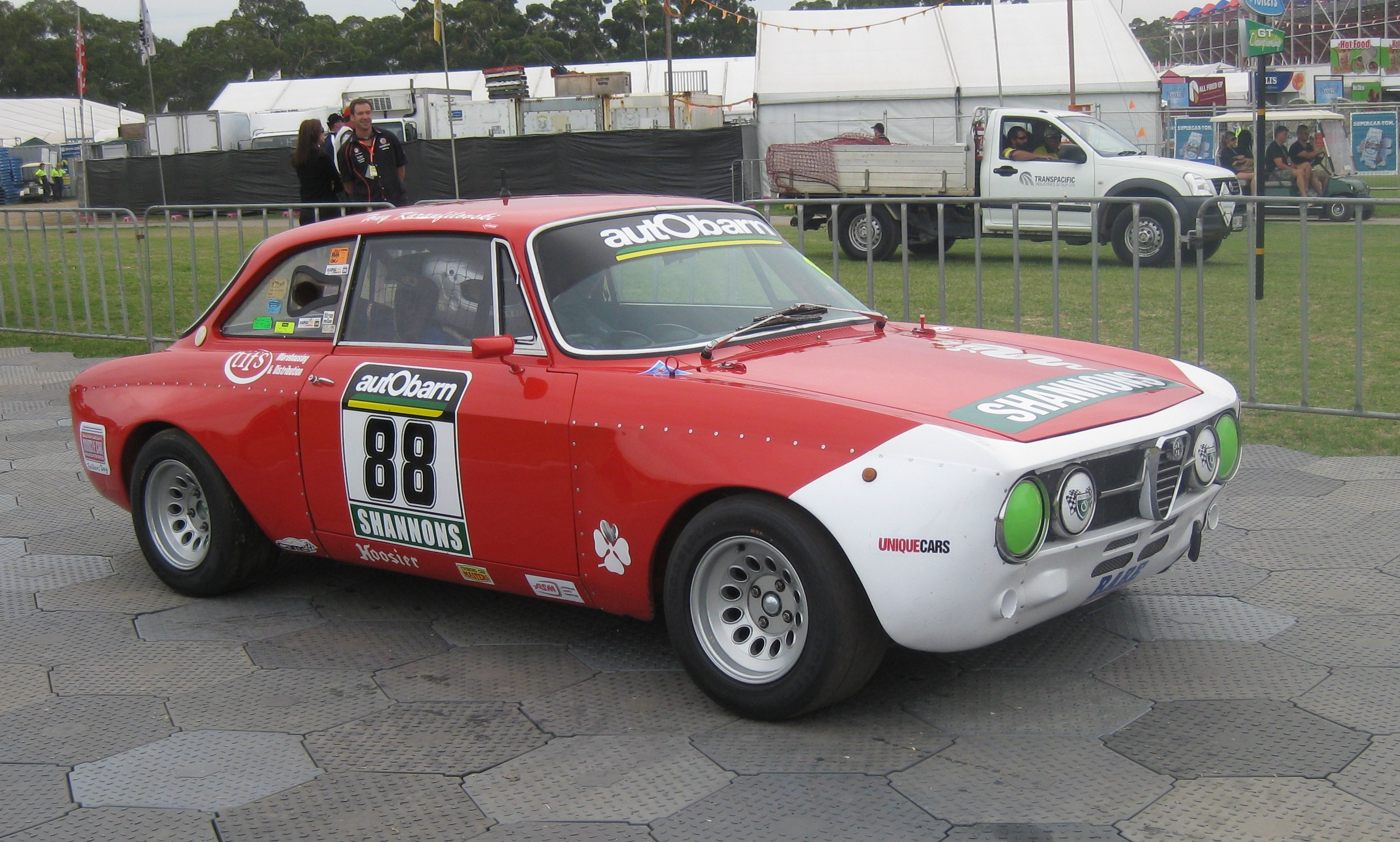 The Alfa Romeo GTAm of Tony Karanfilovski at the Adelaide Parklands Circuit for the opening round of the 2011 Touring Car Masters